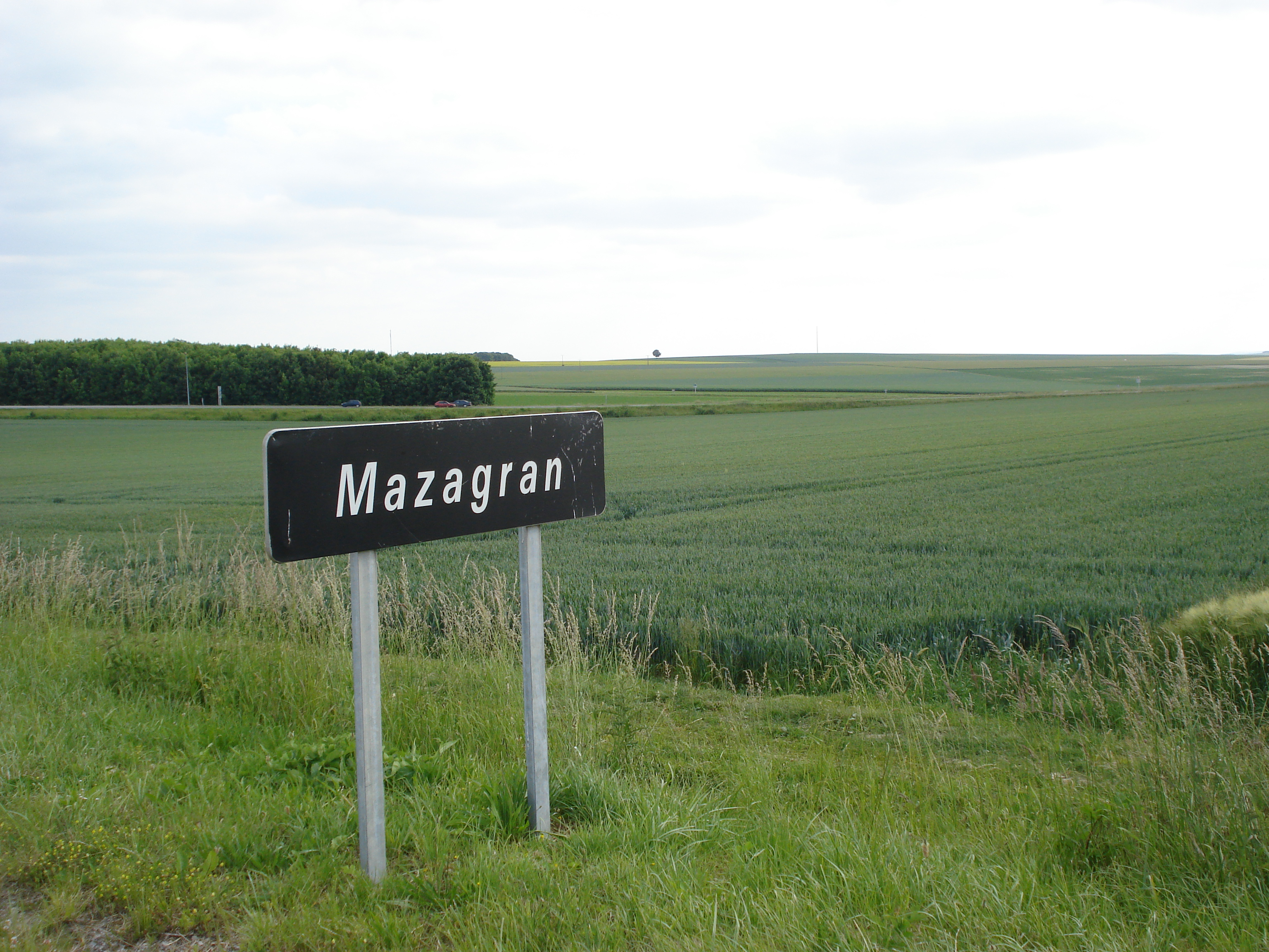 Plateau de Mazagran, site du livre d'André Dhôtel: Le plateau de Mazagran.